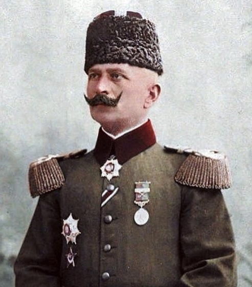 Omar Fahreddin Pasha, known for his two years and seven months of Medina Defense, which he ruled in Medina under difficult circumstances during the Sharif Hussein rebellion during World War I.